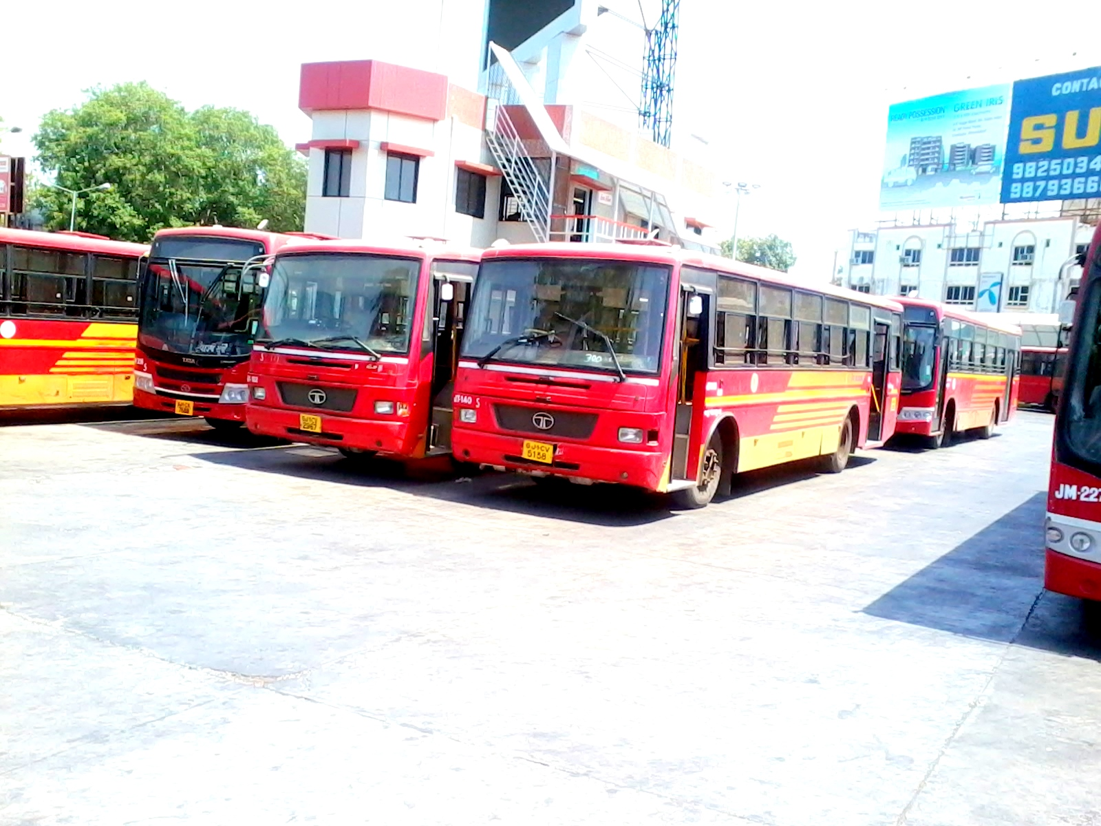 Photo Taken at Ahmedabad Vadaj Bus Stop.